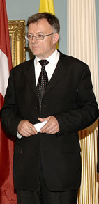 Lithuanian head of Foreign Affairs Petras Vaitiekūnas